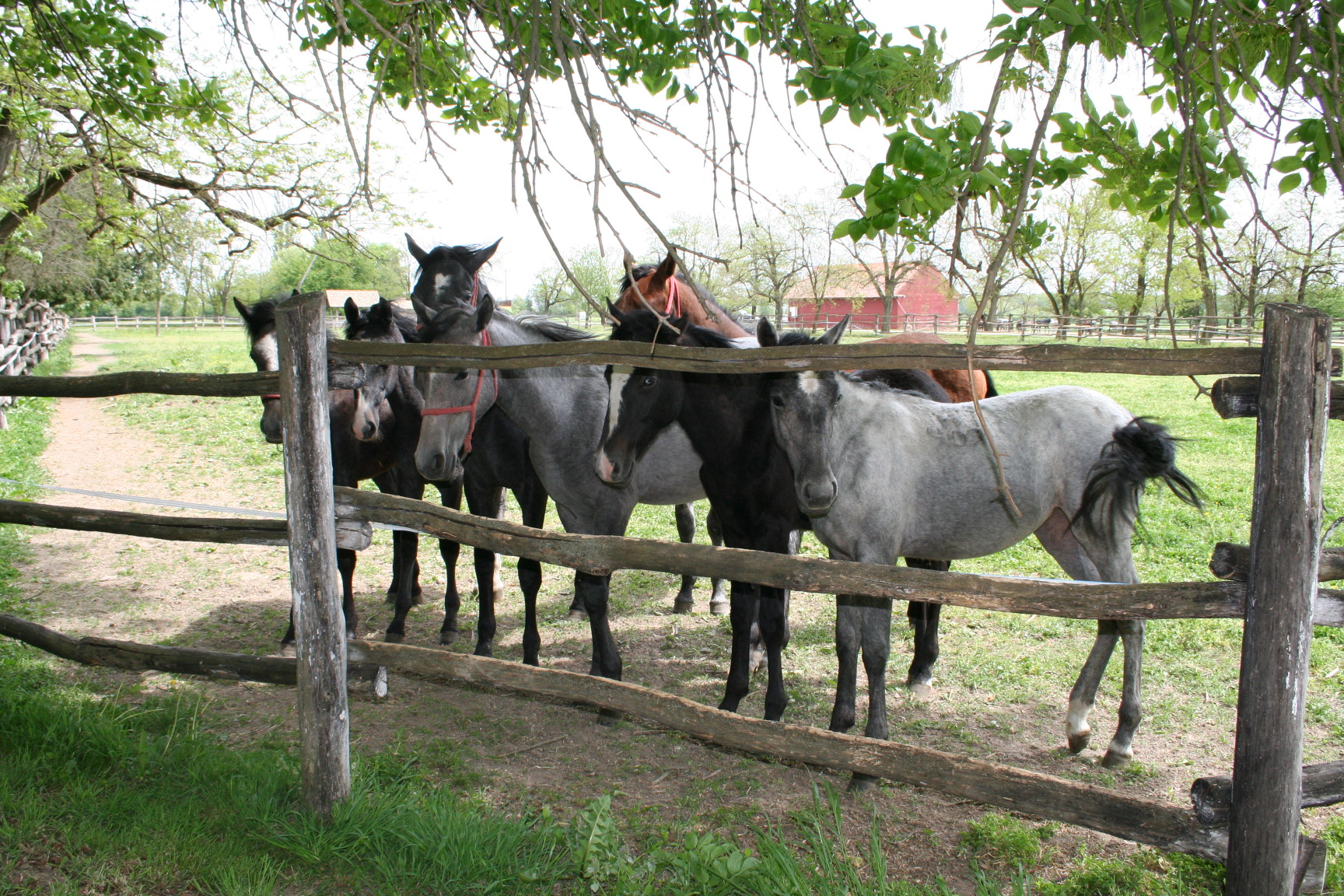 State Stud Farm in Đakovo (Croatia), location Ivandvor.